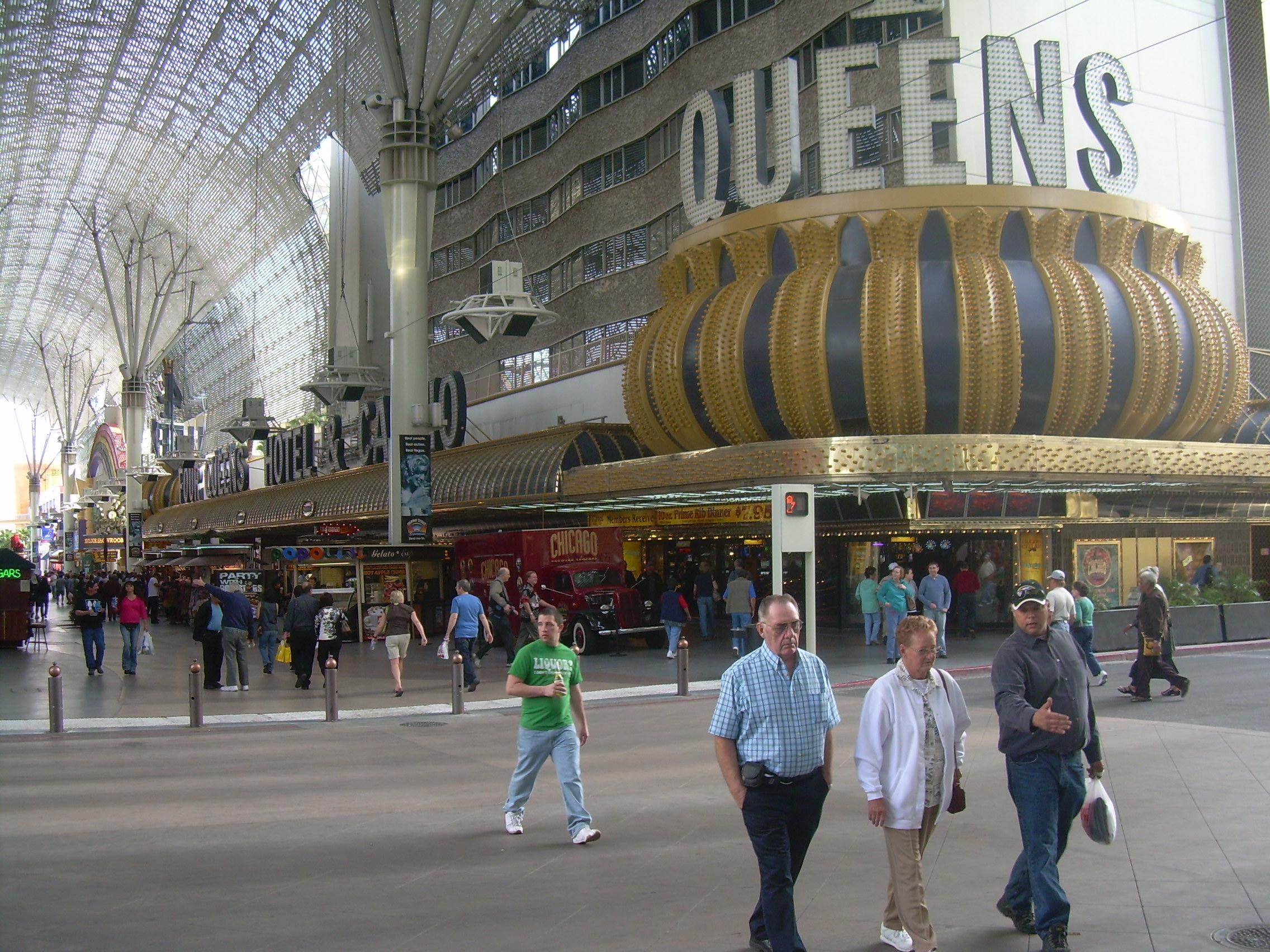 Four Queens hotel and casino — on the Fremont Street Experience in Downtown Las Vegas.